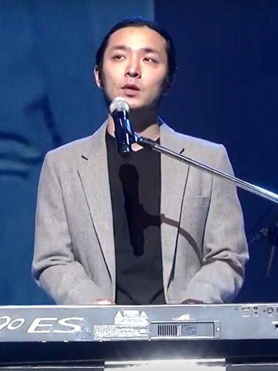 Verbal Jint performing "Have Something Like Oil on It (기름같은걸 끼얹나)" at the Makeus Vacation Party on February 3, 2013.